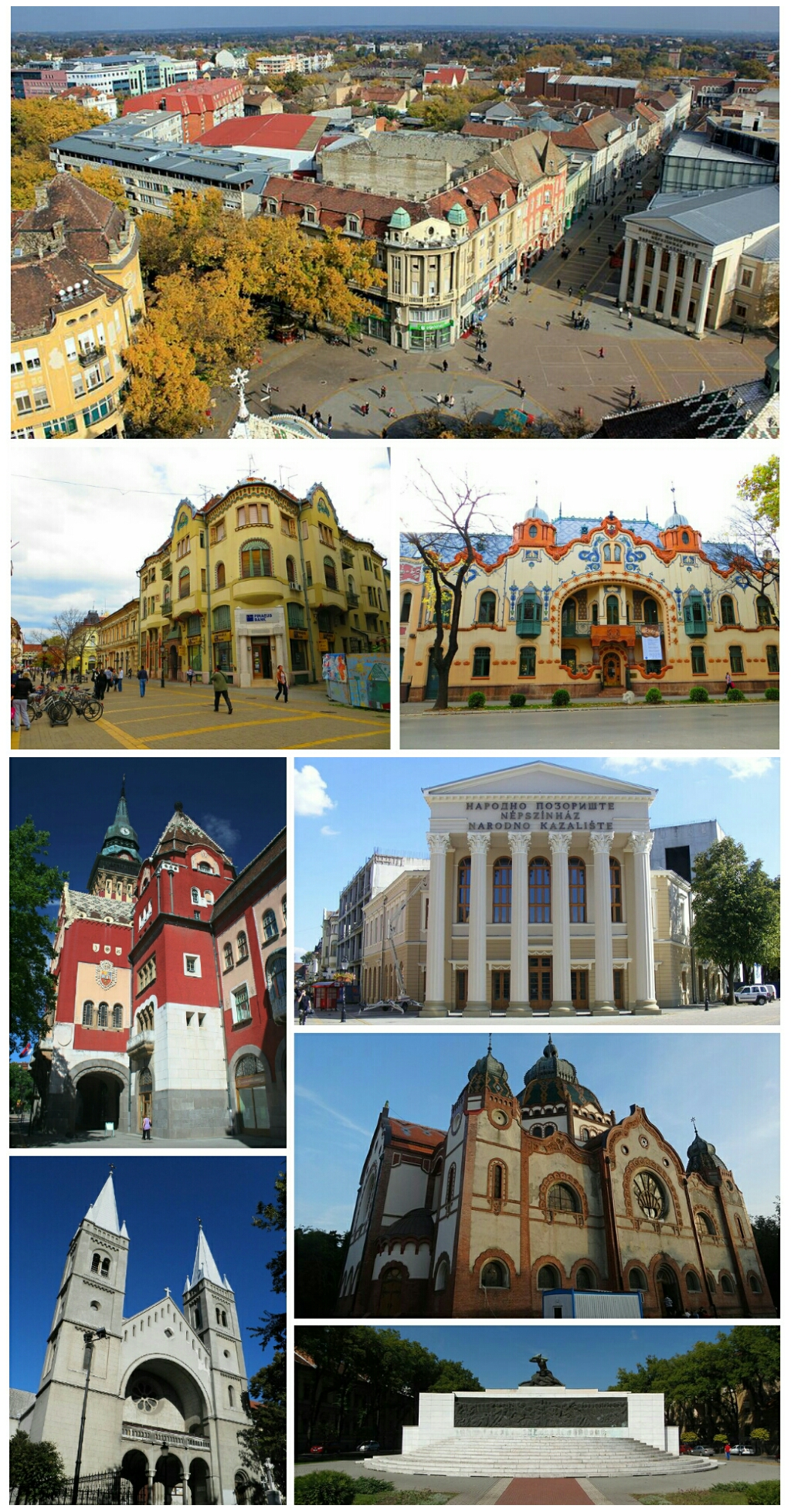 Subotica- photomontage (Panorama of Subotica, City center, Reichel Palace, City hall, National Theatre, Subotica Synagogue, Franciscan church of St. Michael, Monument to the Victims of Fascism)